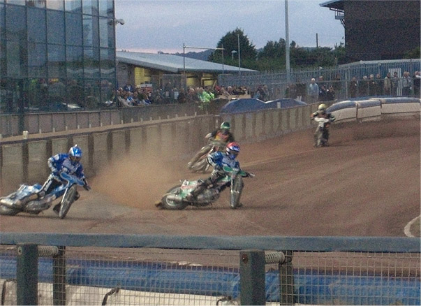 Poole Pirate's duo leading away team